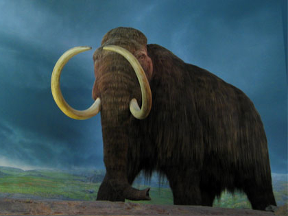 Royal BC Museum, Victoria, British Columbia.